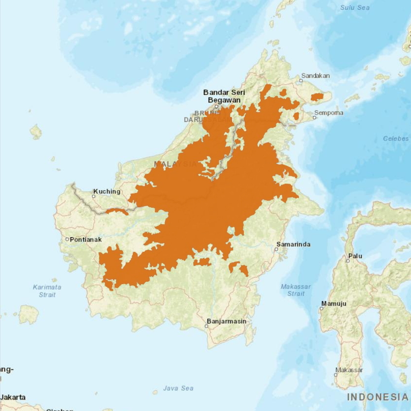 Distribution of Bay Cat